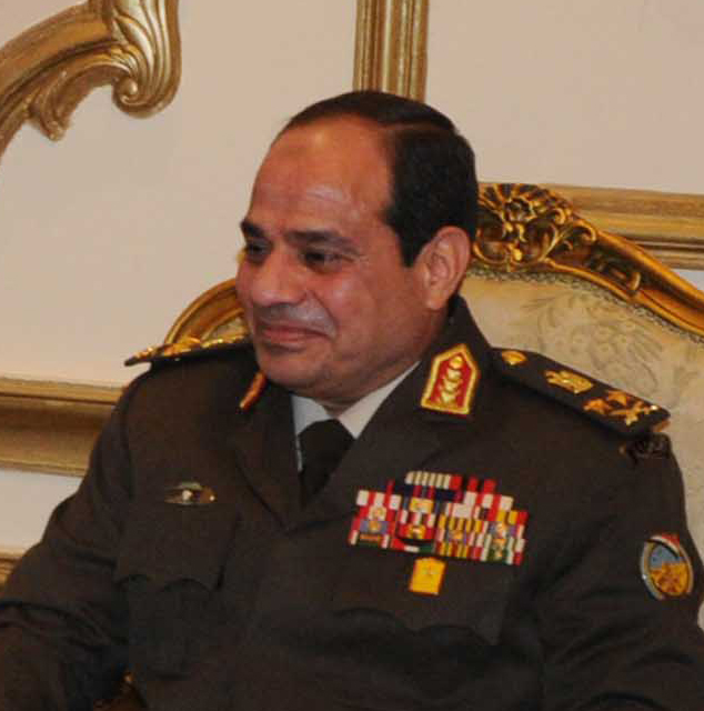 Egyptian Defense Minister Abdul Fatah Khalil al-Sisi in Cairo, Egypt on March 3, 2013.